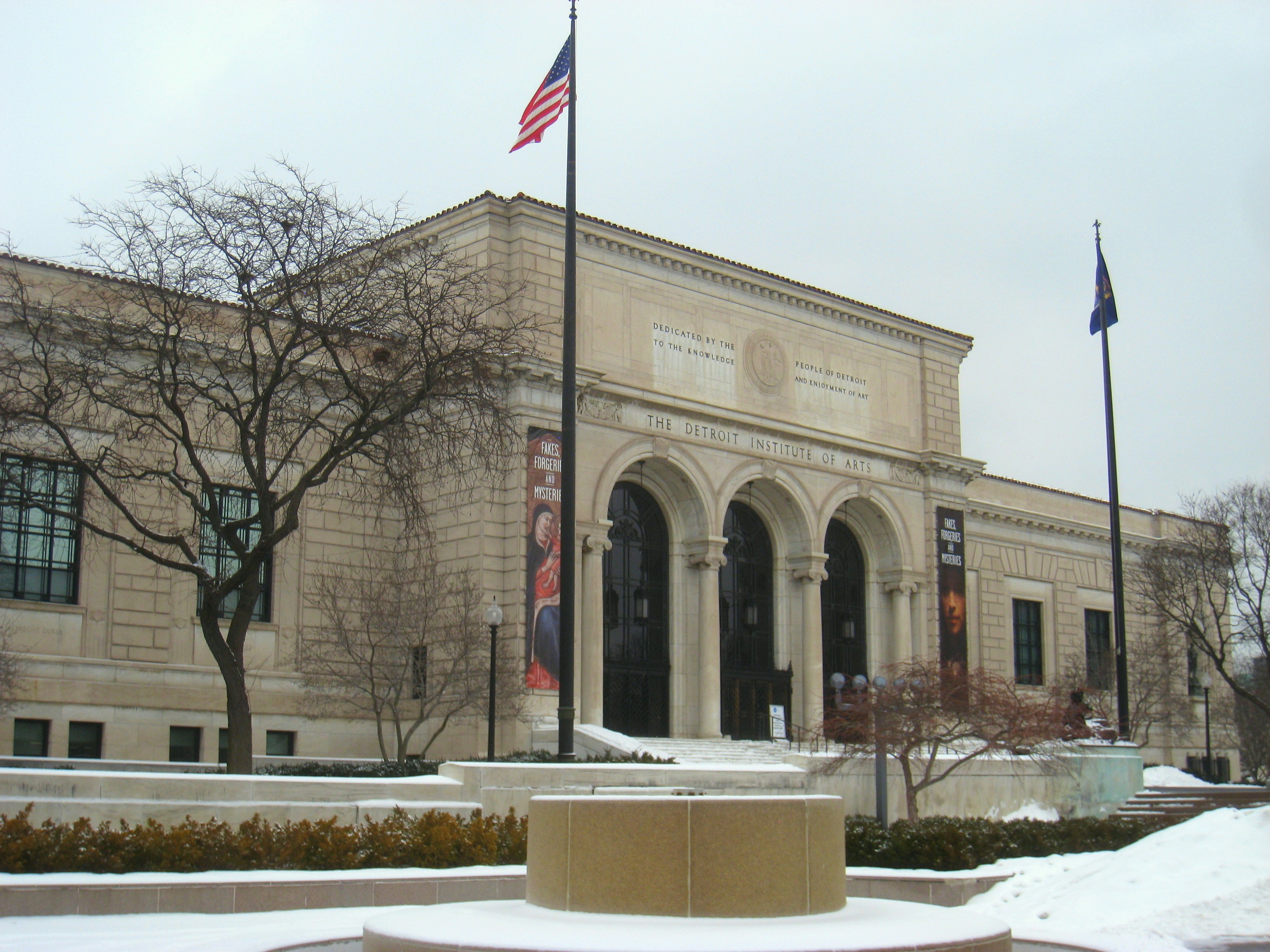 Detroit Institute of Arts, Detroit, Michigan, USA.